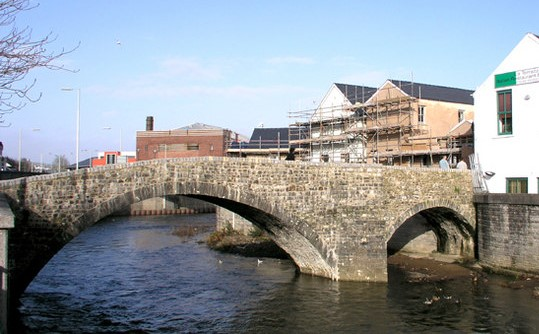 The Old Bridge - Yr Hen Bont, Bridgend This bridge over the Ogmore River in the town centre was built in 1425, repaired in 1775 and recently restored in 2005